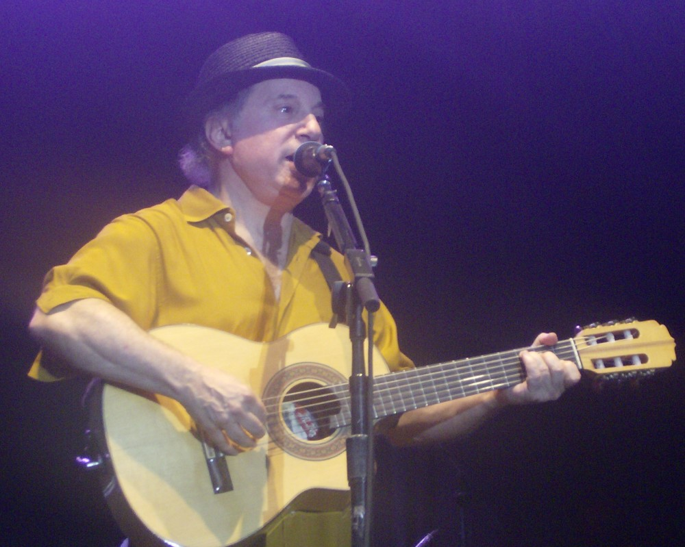 Paul Simon, live in Mainz, Germany, July 25, 2008